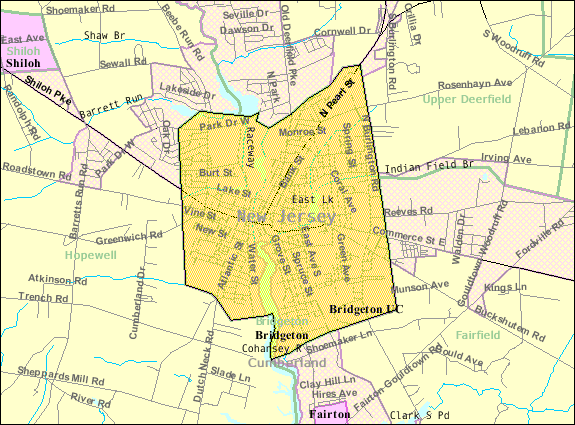 U.S. Census Bureau map of Bridgeton, New Jersey